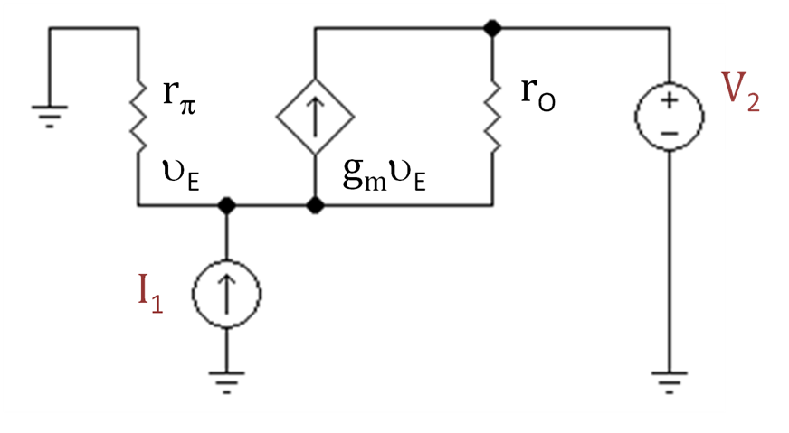 Common base hybrid pi with current drive